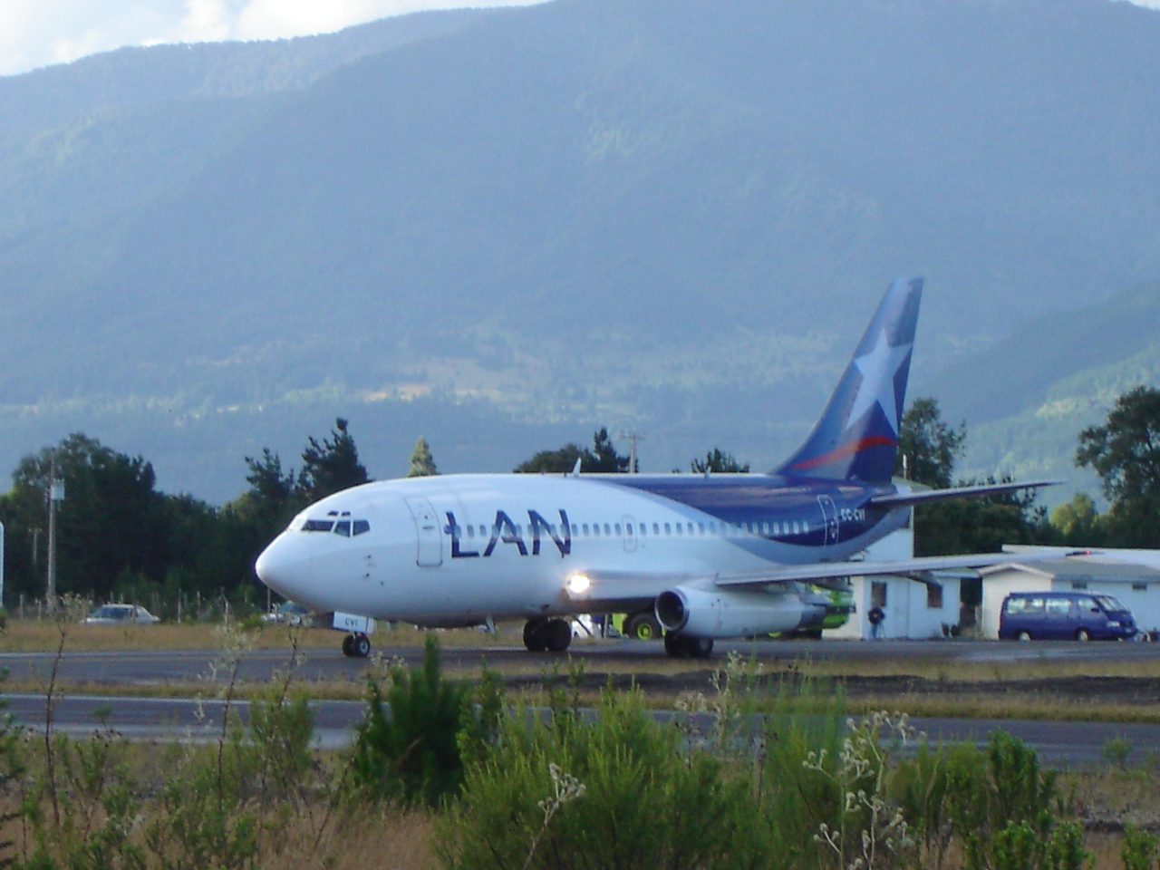 LAN airplane leaving the Pucon Airport. Taken by me in January 2006. CC-CVI